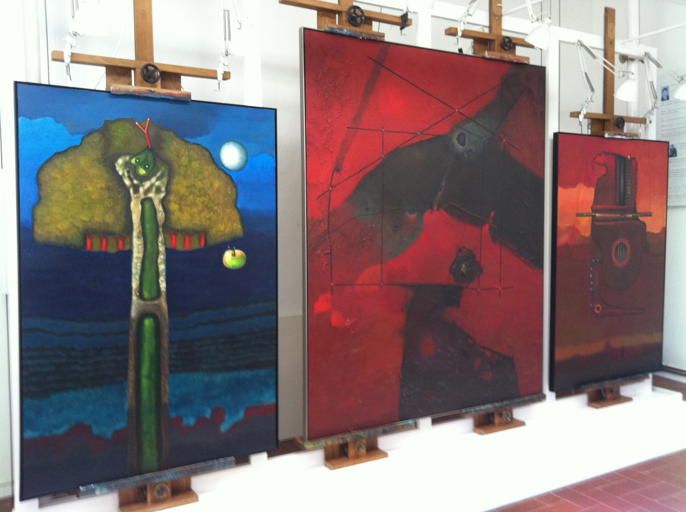 Edit-a-thon at Fundació Modest Cuixart in Palafrugell, Catalonia